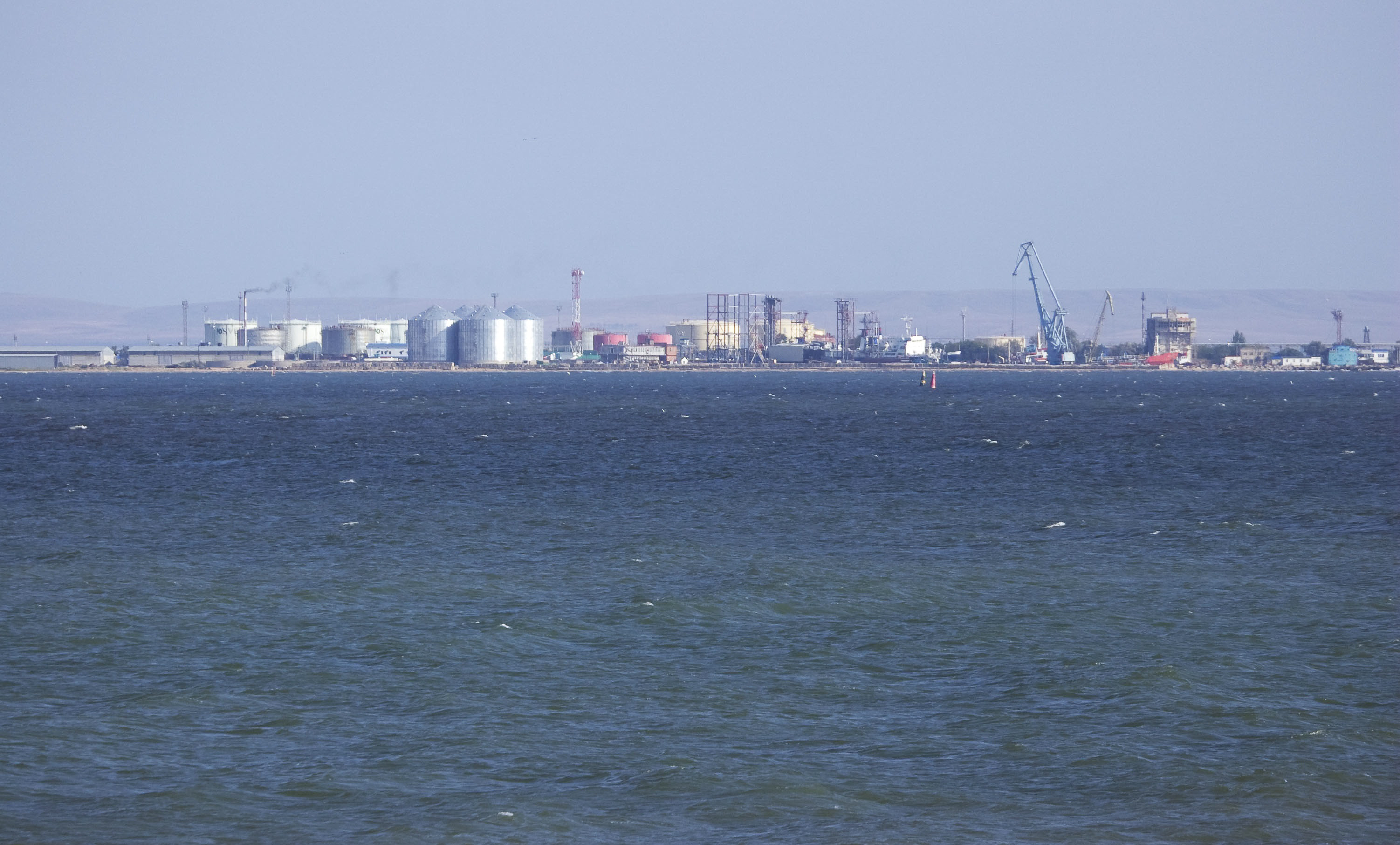 Port Kavkaz harbor in Kerch Strait